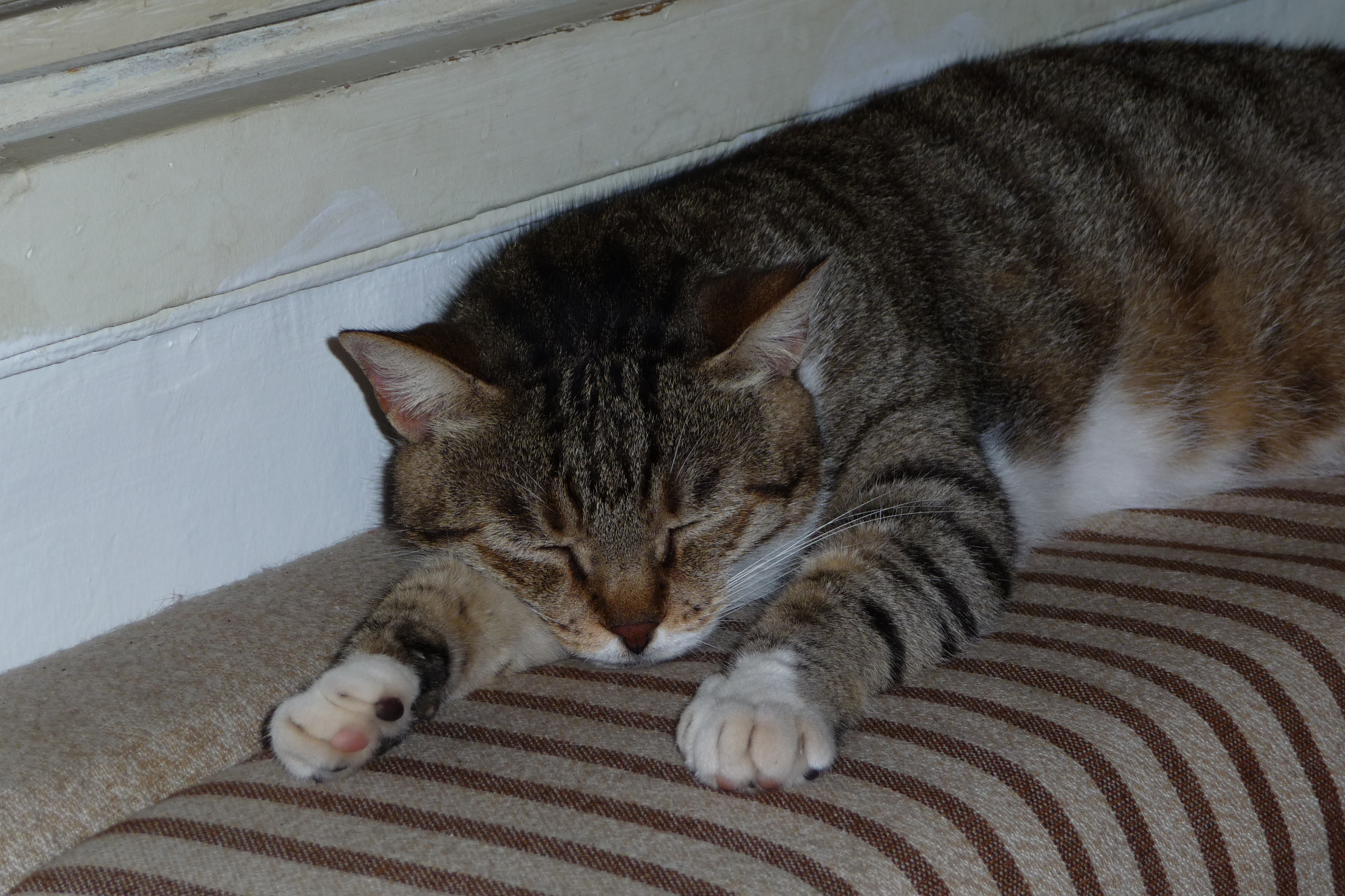 Beit Oren is a kibbutz in northern Israel. It falls under the jurisdiction of Hof HaCarmel Regional Council.